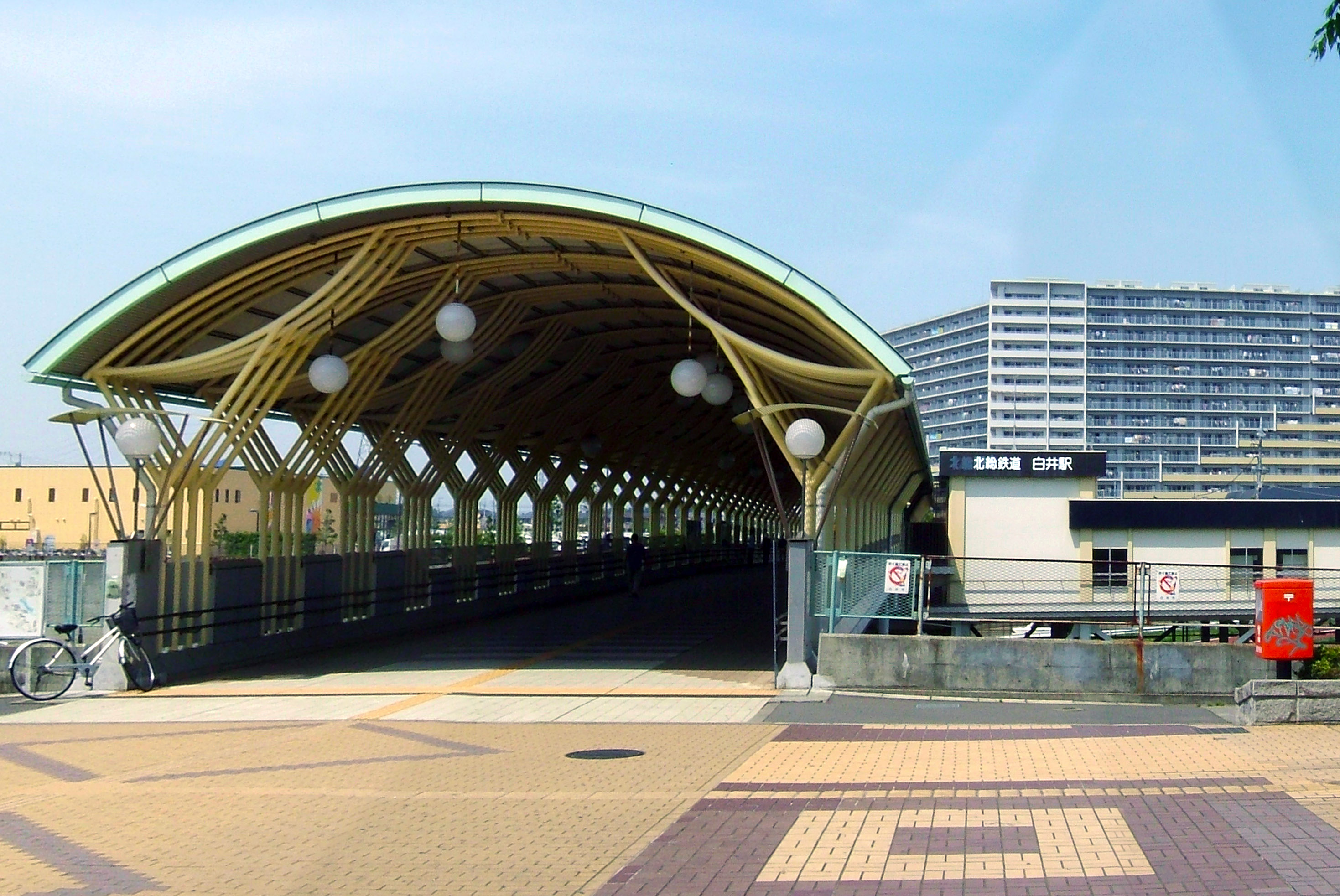 The south entrance to Shiroi Station on the Hokusō Railway in Shiroi city, Chiba prefecture, Japan